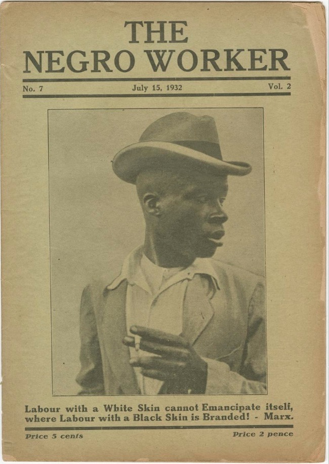 Object number 2010.55.33 from National Museum of African American History and Culture Collection